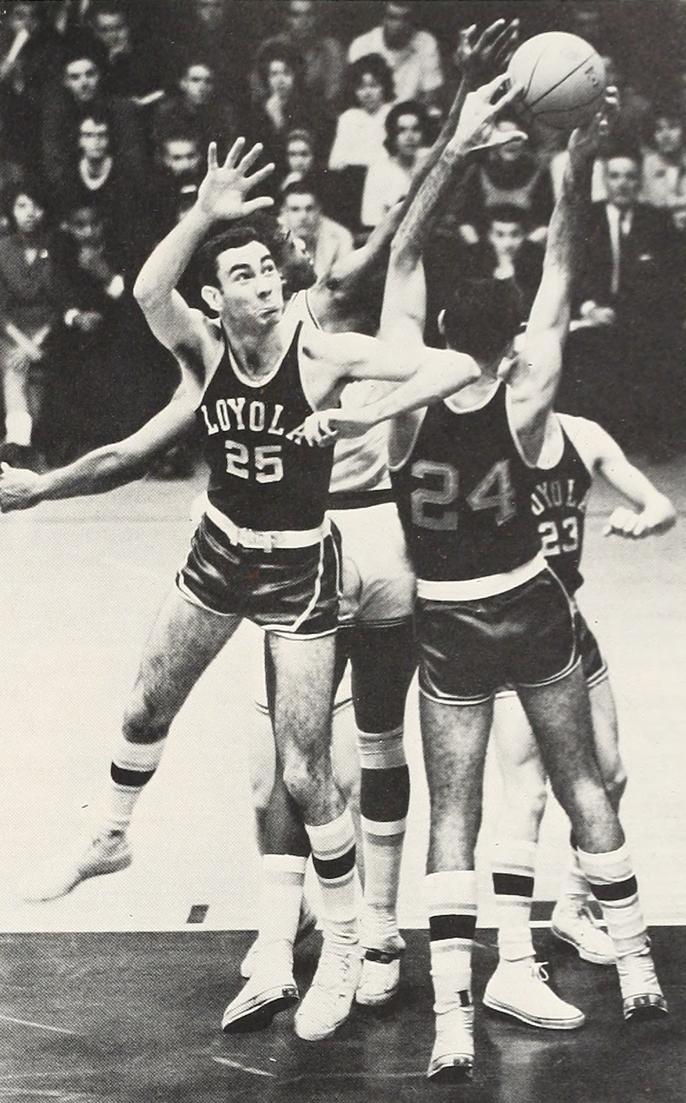 Ken Ryan and an unidentified teammate from Loyola University New Orleans get a rebound from Les Hunter of Loyola University Chicago in a January 5, 1963 basketball match at Alumni Gym, Chicago, IL. This photo was scanned from the 1963 edition of the Loyolan, the yearbook of Loyola University Chicago. Original caption: "Looking for elbow room is Ken Ryan of "the other Loyola" as he assists teammate in grabbing rebound from Les Hunter."